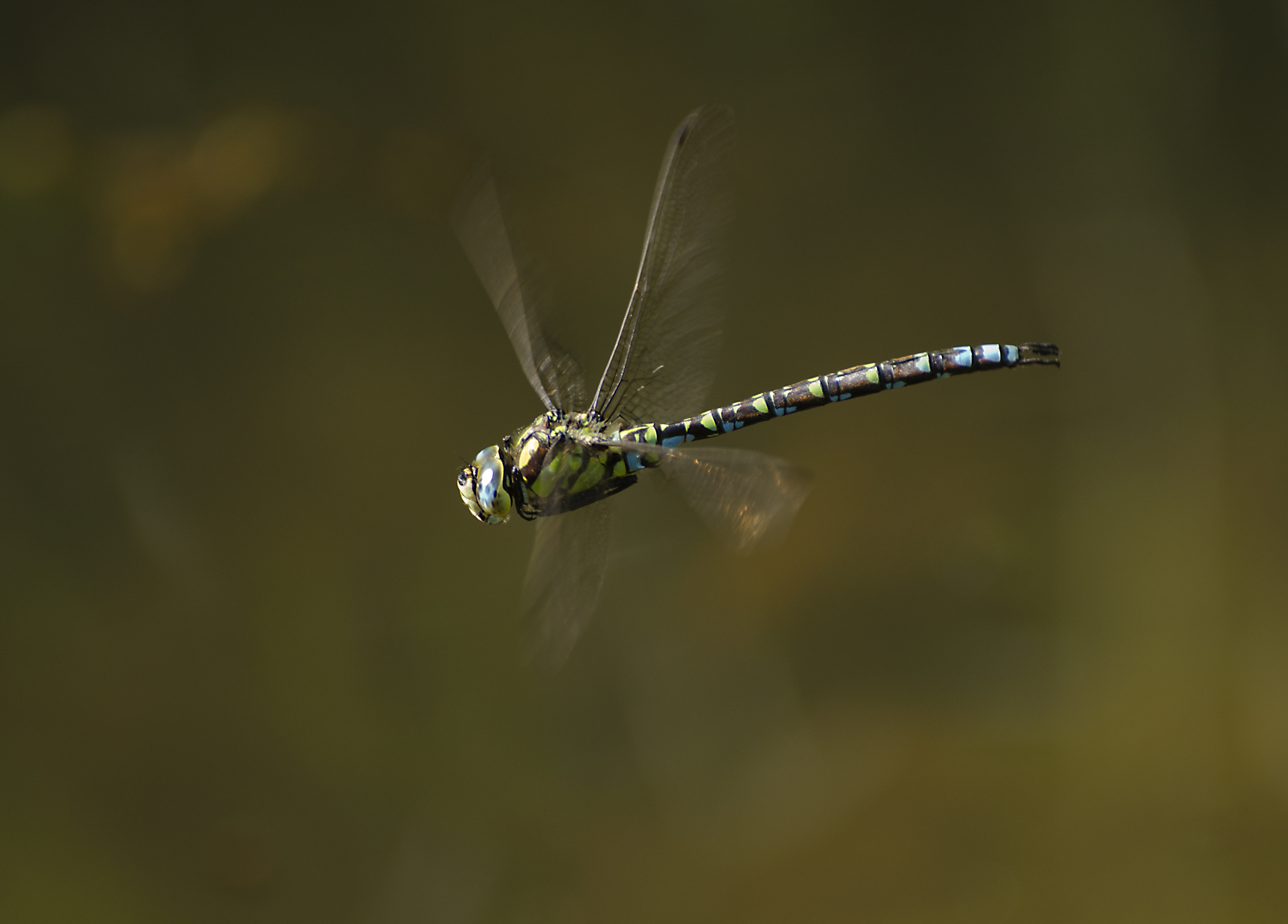 Southern Hawker, picture taken at a forest pond near Stuttgart, Germany